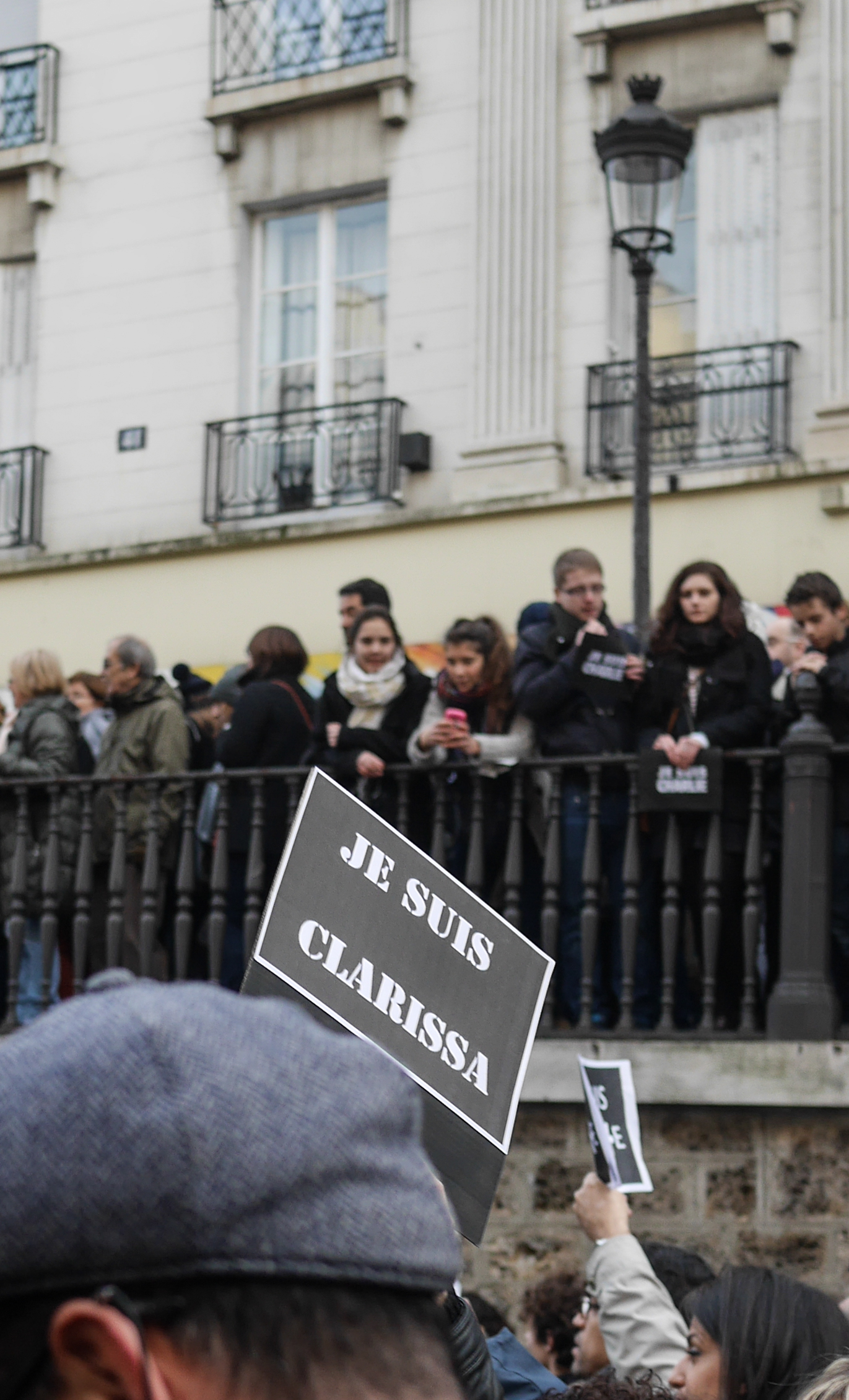 Paris rally in support of the victims of the 2015 Charlie Hebdo shooting, 11 January 2015.